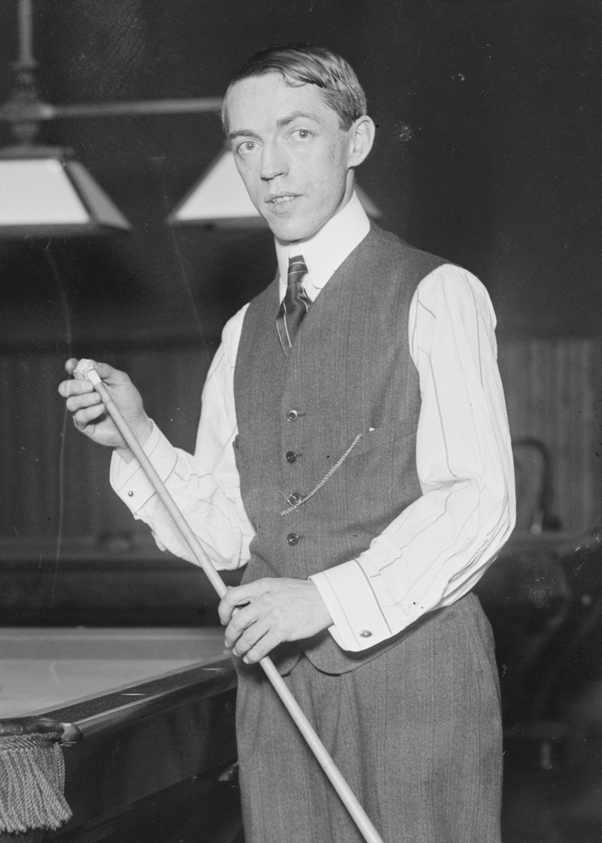 Title: Jerome Keogh [at pool table] Abstract/medium: 1 negative : glass ; 5 x 7 in. or smaller.